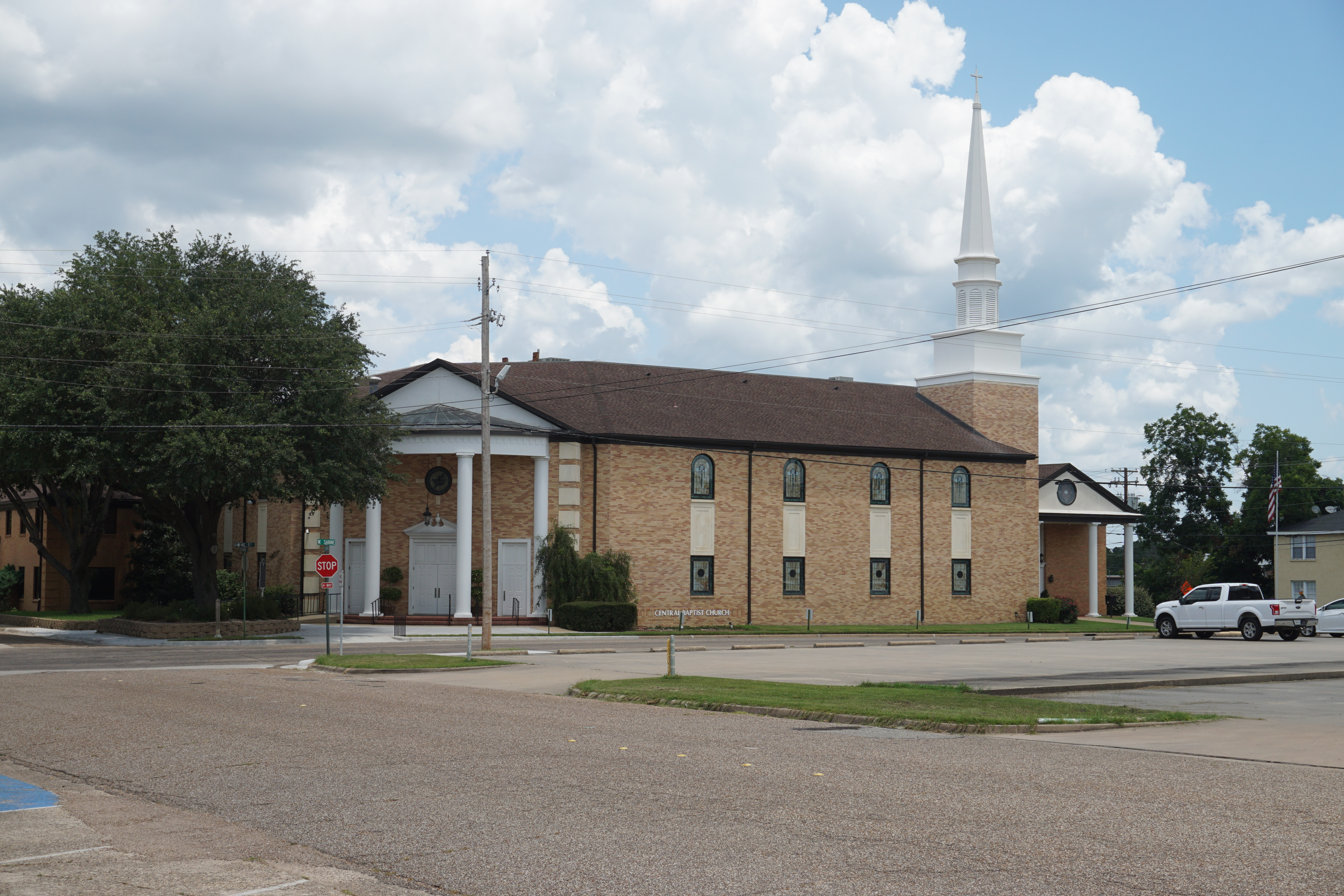 Central Baptist Church in Carthage, Texas (United States).